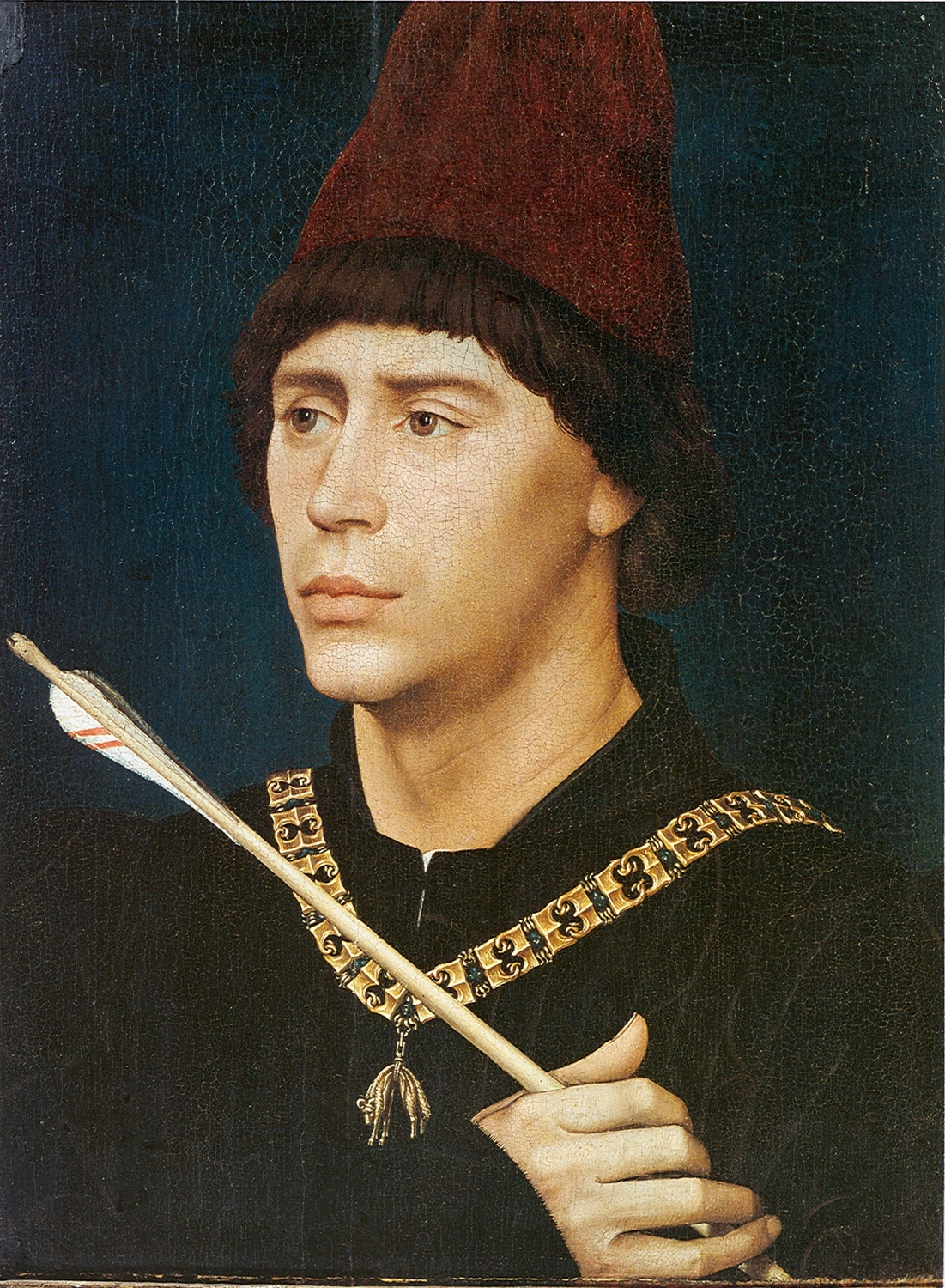 Note the flints and steels (the private emblem of Philip the Good of Burgundy, the order's founder and the sitter's father) on the chain holding Antoine's Order of the Golden Fleece.